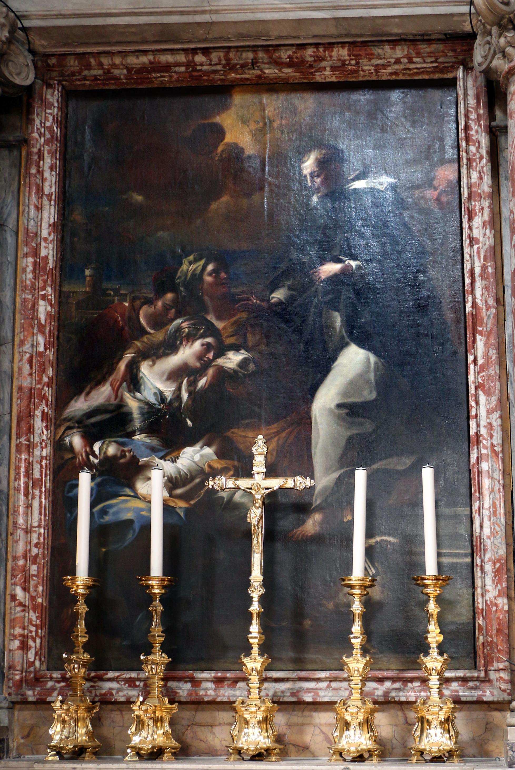 Santa Caterina a Magnanapoli (Rome) - Interior